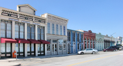 Hutto Downtown (2006)